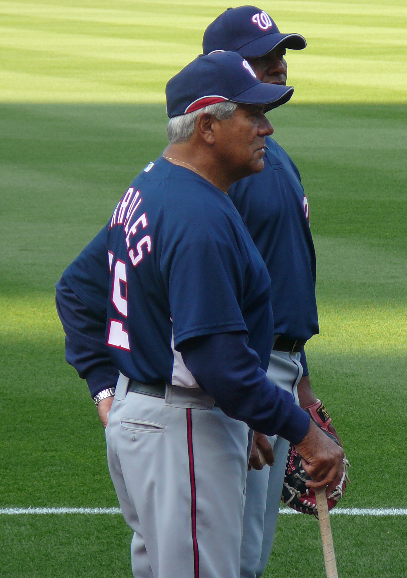 User:Chrisjnelson agreed to license this image of Pat_Corrales.jpg under a free attribution license. Any use of this image must be attributed; this means that Photo by :en:User:Chrisjnelson|Chris Nelson should be in the picture caption. 01:56, 24 April 2008 . . Chrisjnelson . . 1,386×1,968 (1.66 MB)